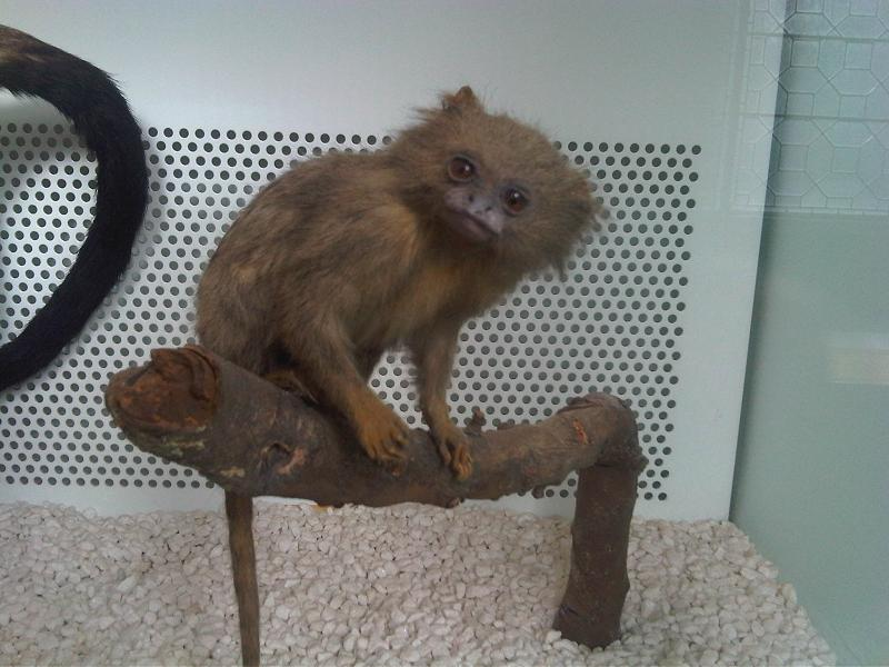 Taxidermied pygmy marmoset or dwarf monkey (Cebuella pygmaea) at the Natural History Museum in London, England.